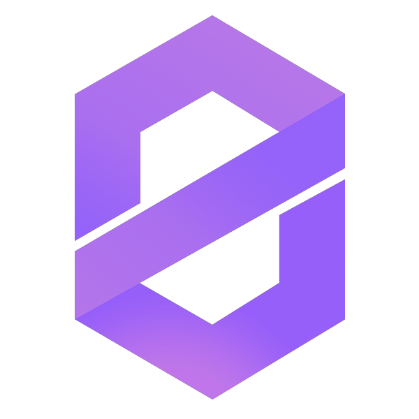 ZeroNet logo (new)